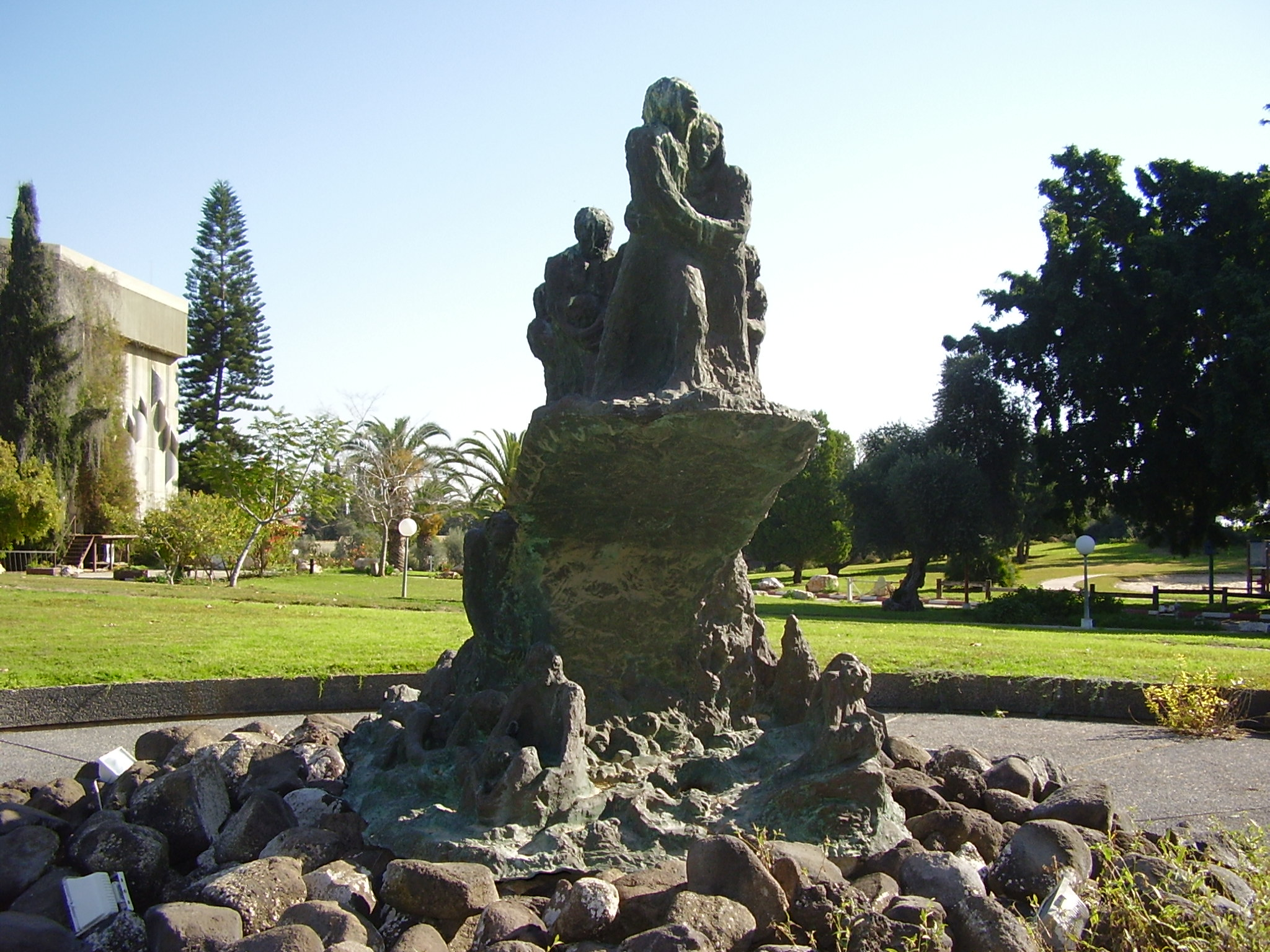 memorial "from holocoaust to revival" by batia lychansky, israel